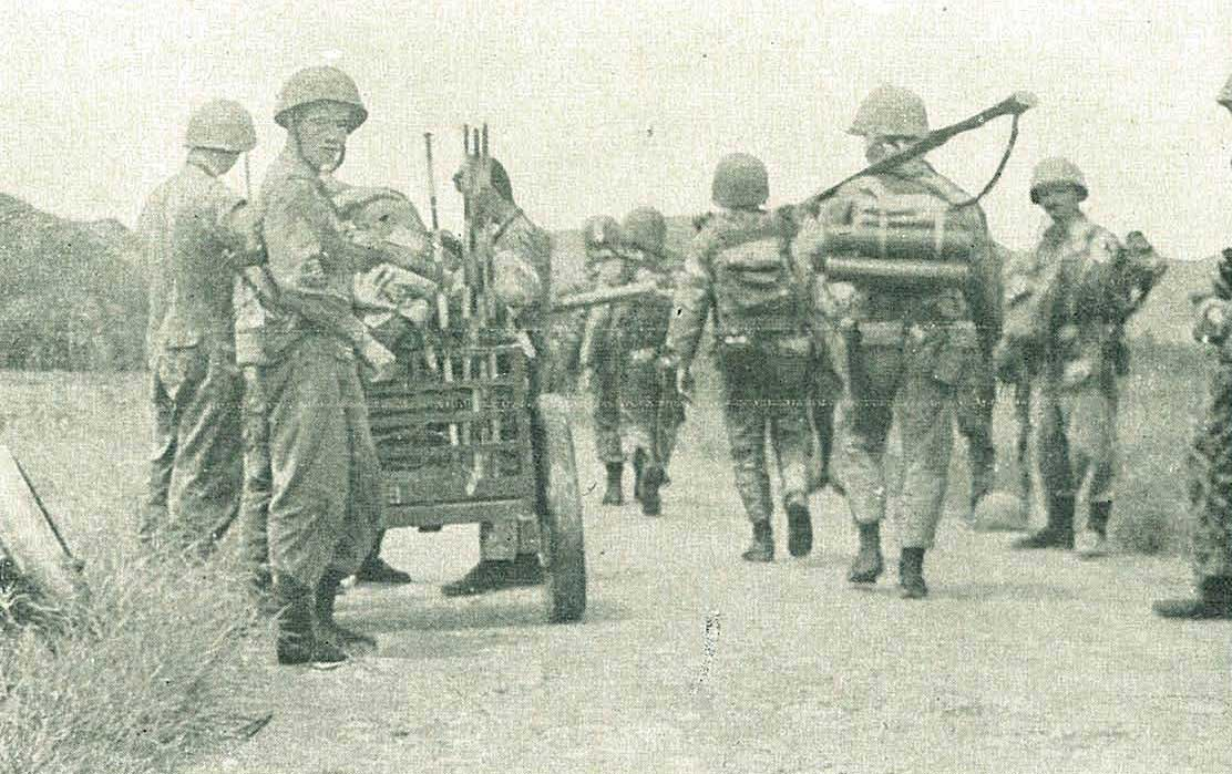 Indonesian Navy Commando Corps trekking to Amurang